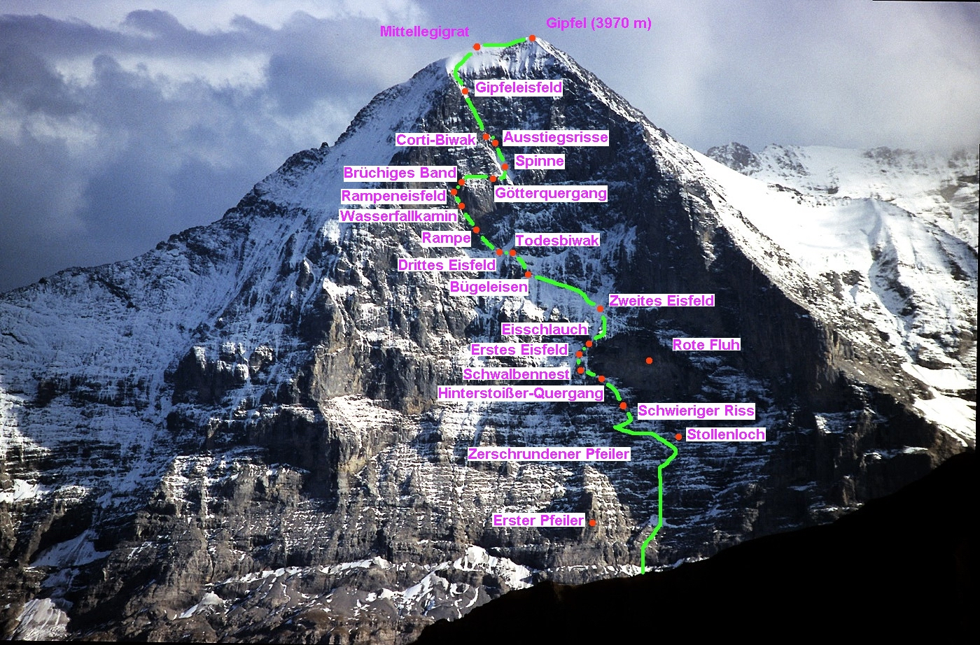 Heckmair-route through the Eiger northface